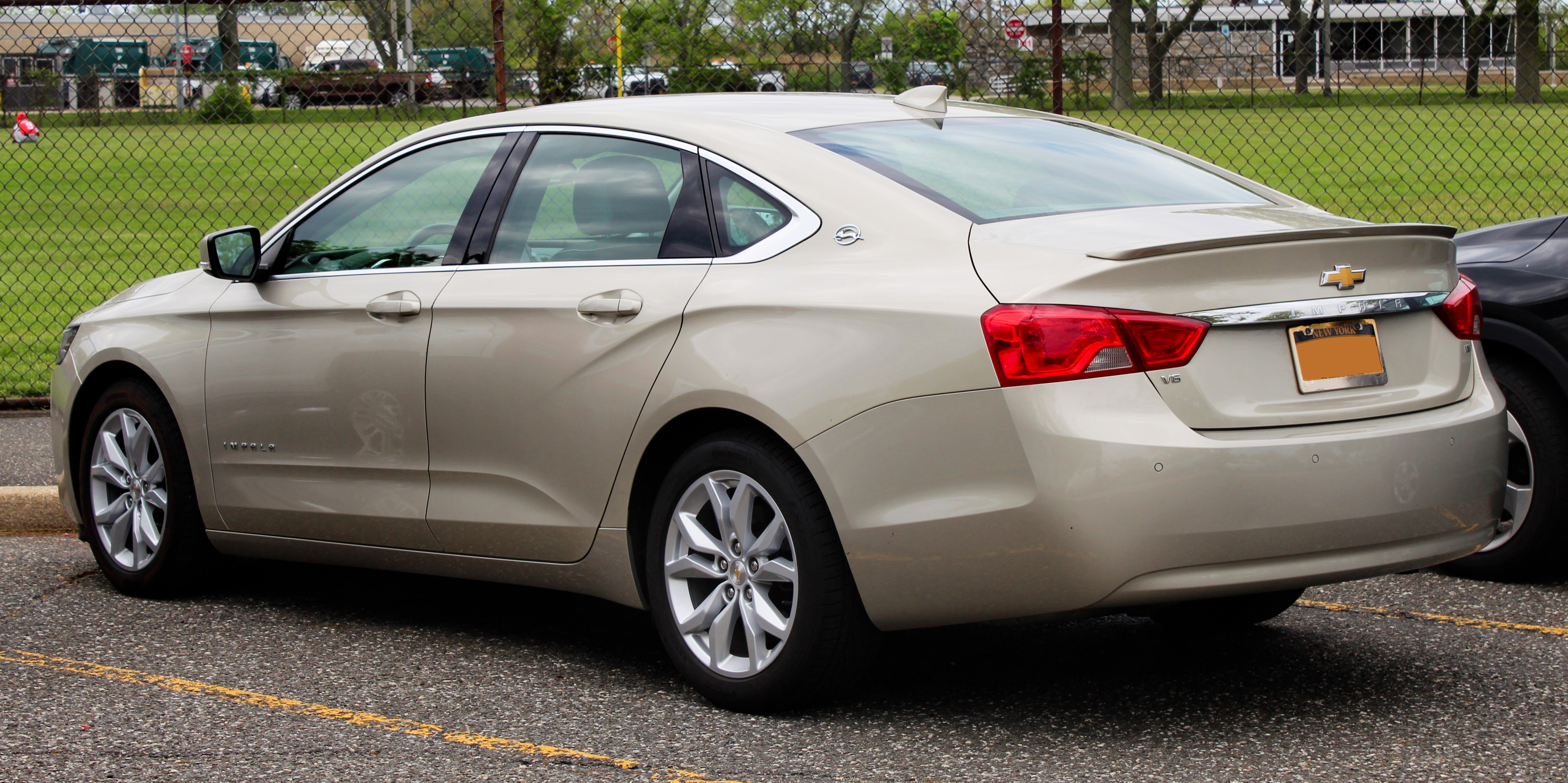 A 2015 Chevrolet Impala LT photographed in Merrick, New York, USA